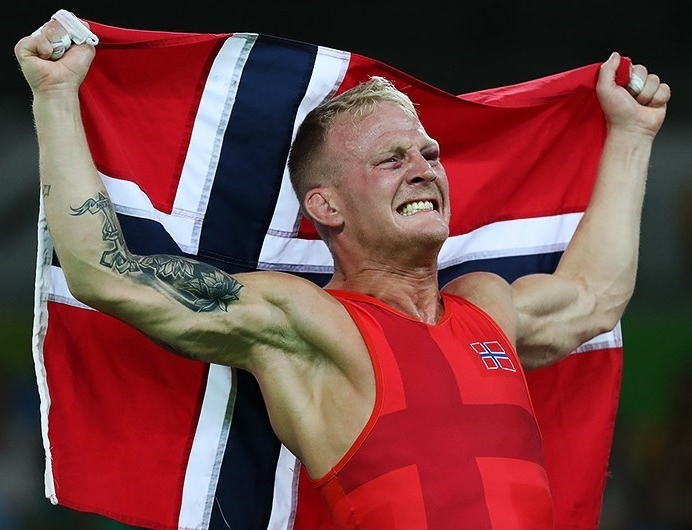 Rio 2016; Greco-Roman Wrestling 59 kg